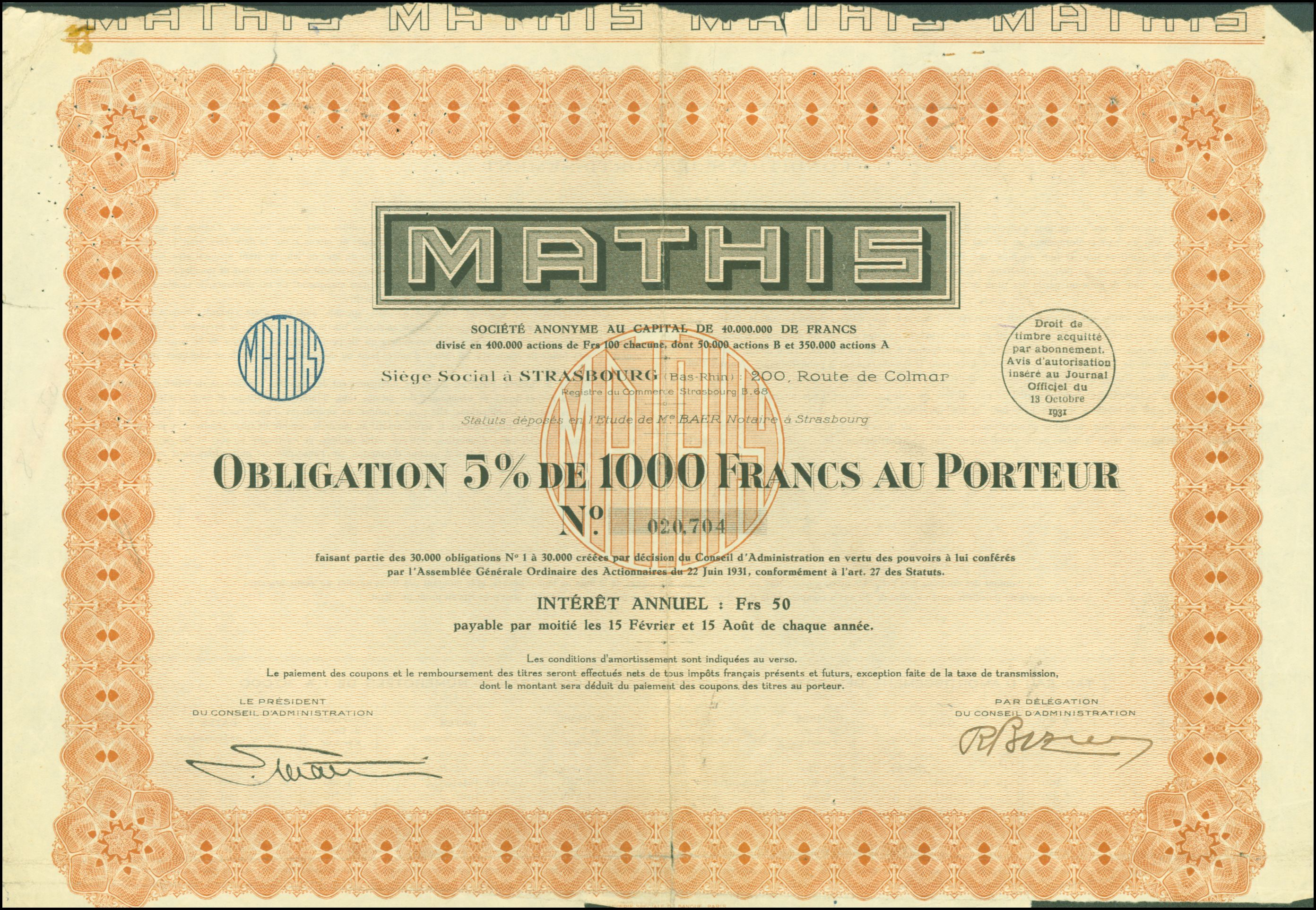 Bond of the Mathis SA, issued 13. October 1931